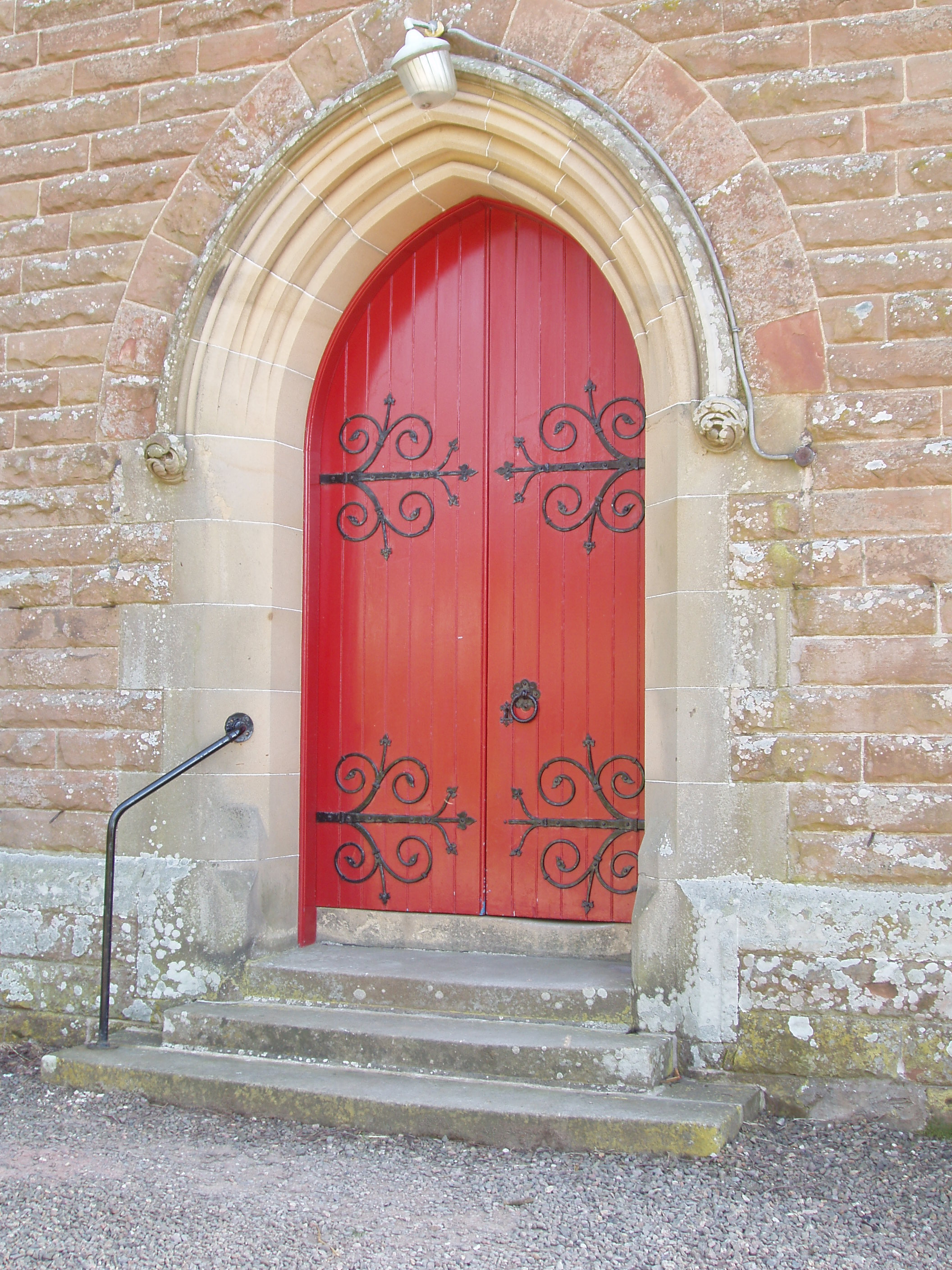 Red door to Stow New Parish Church, Stow, Scottish Borders, Scotlandp5130055